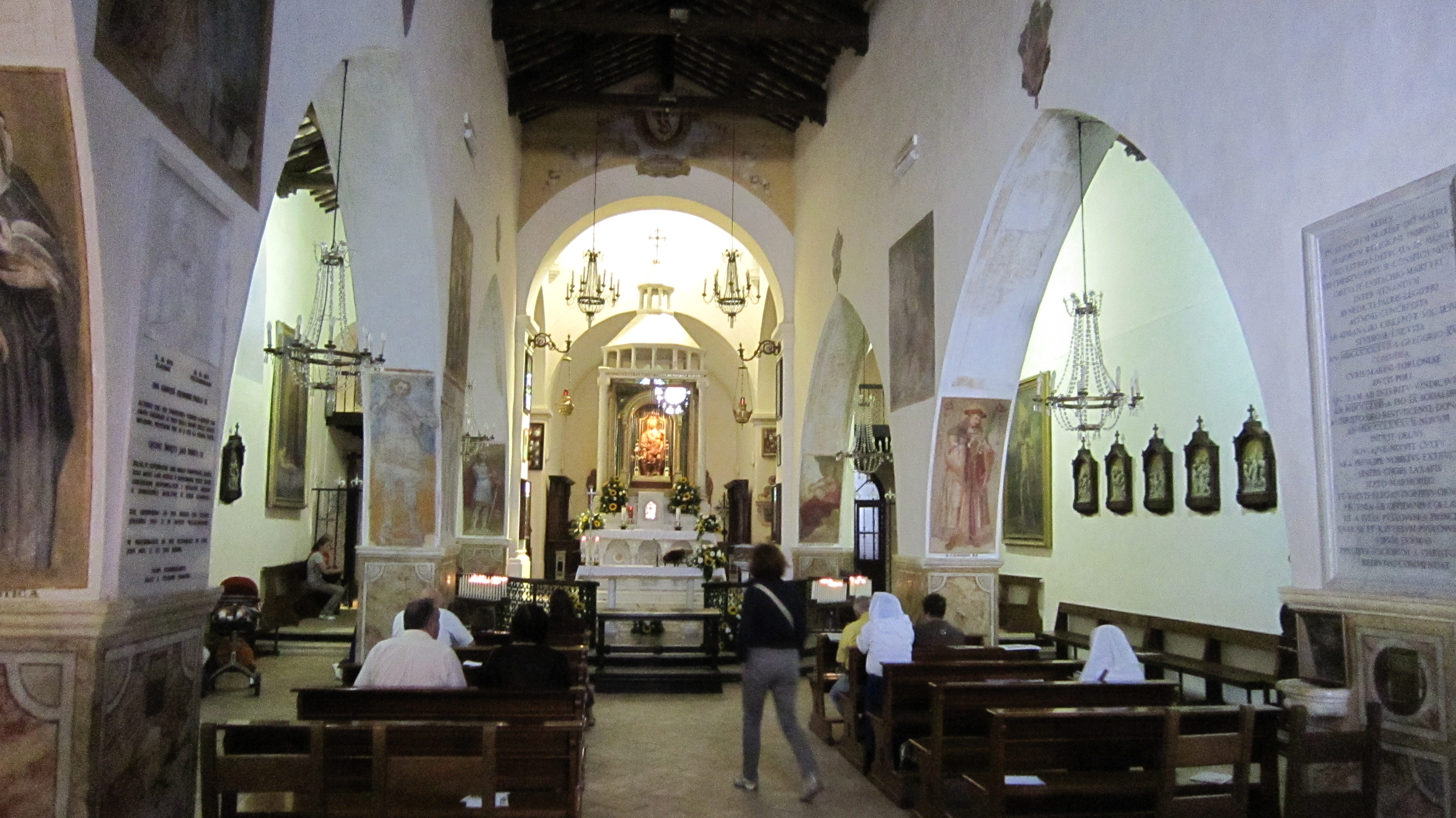 interno santuario mentorella